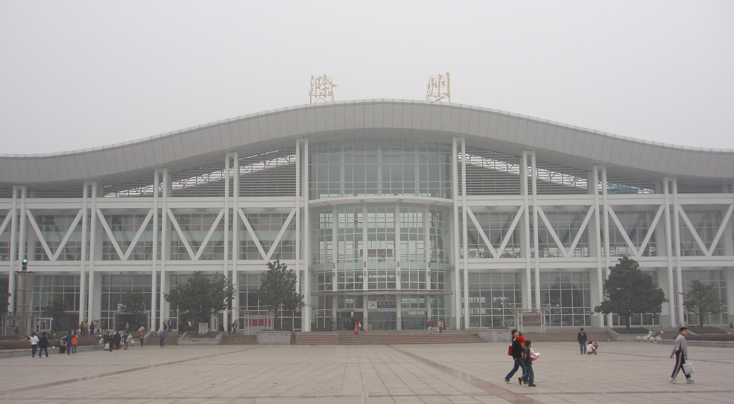 Chuzhou（滁州）railway station in Anhui,China